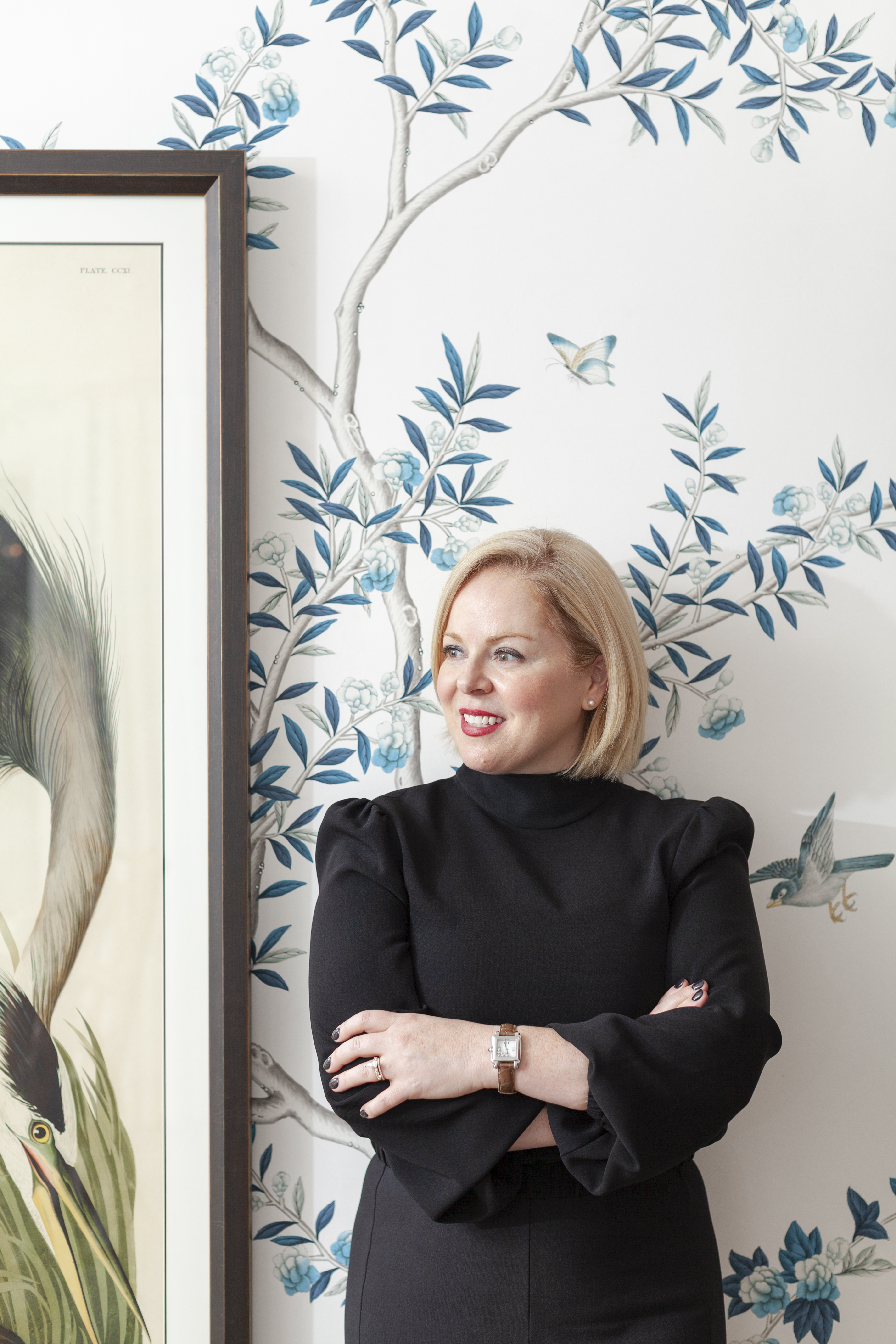 Residential interior designer Laura Umansky at her Houston home